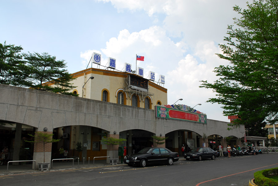 ChiaYi Station is one of the major train station of Taiwan's Western main rail line. It's the main station of ChiaYi City.